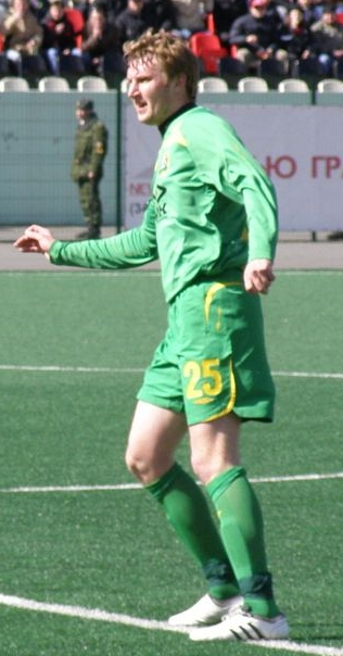 Andrei Ushenin in action for FC Kuban